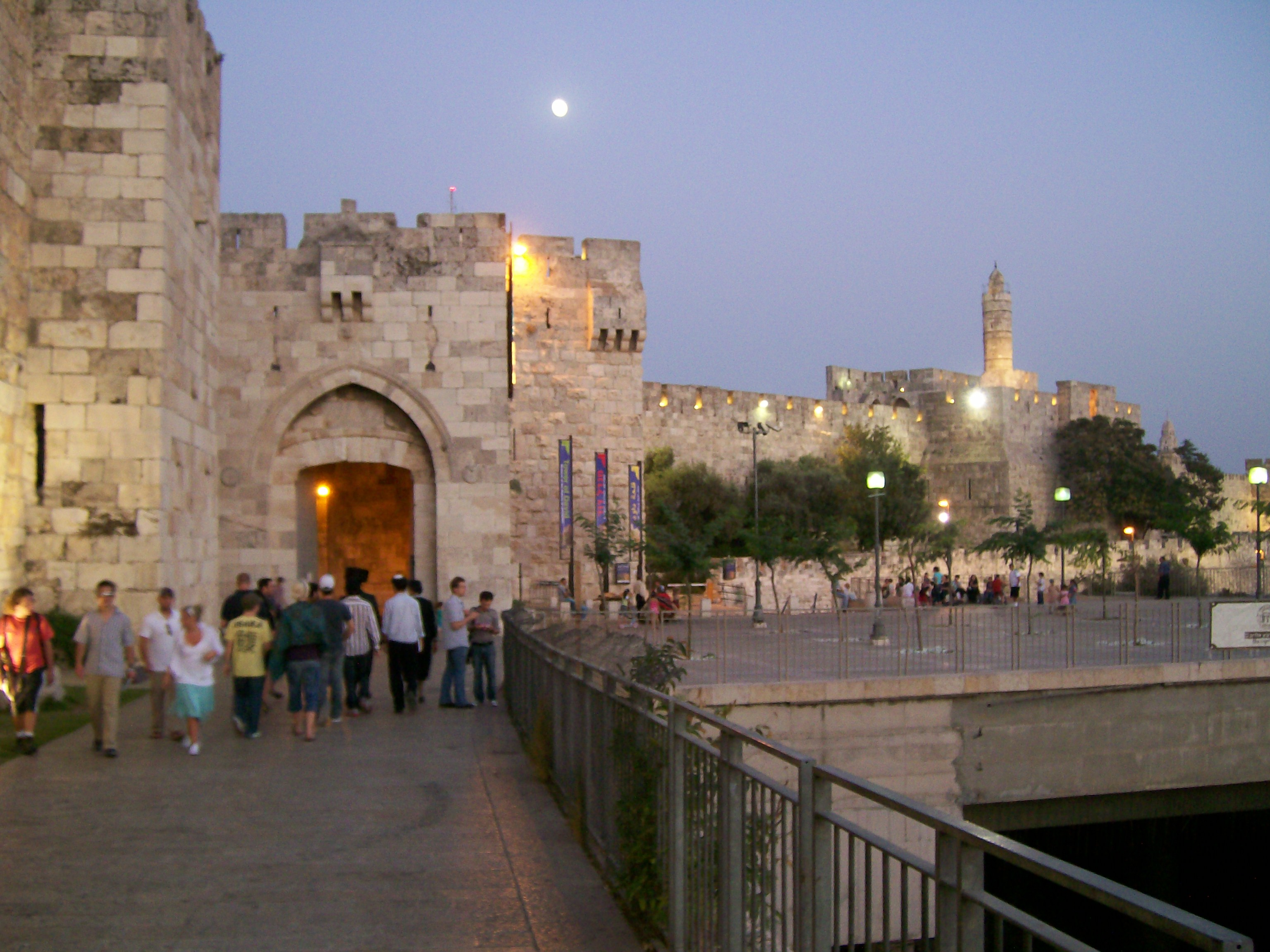 Tourists and guards outside the old city walls, July 07